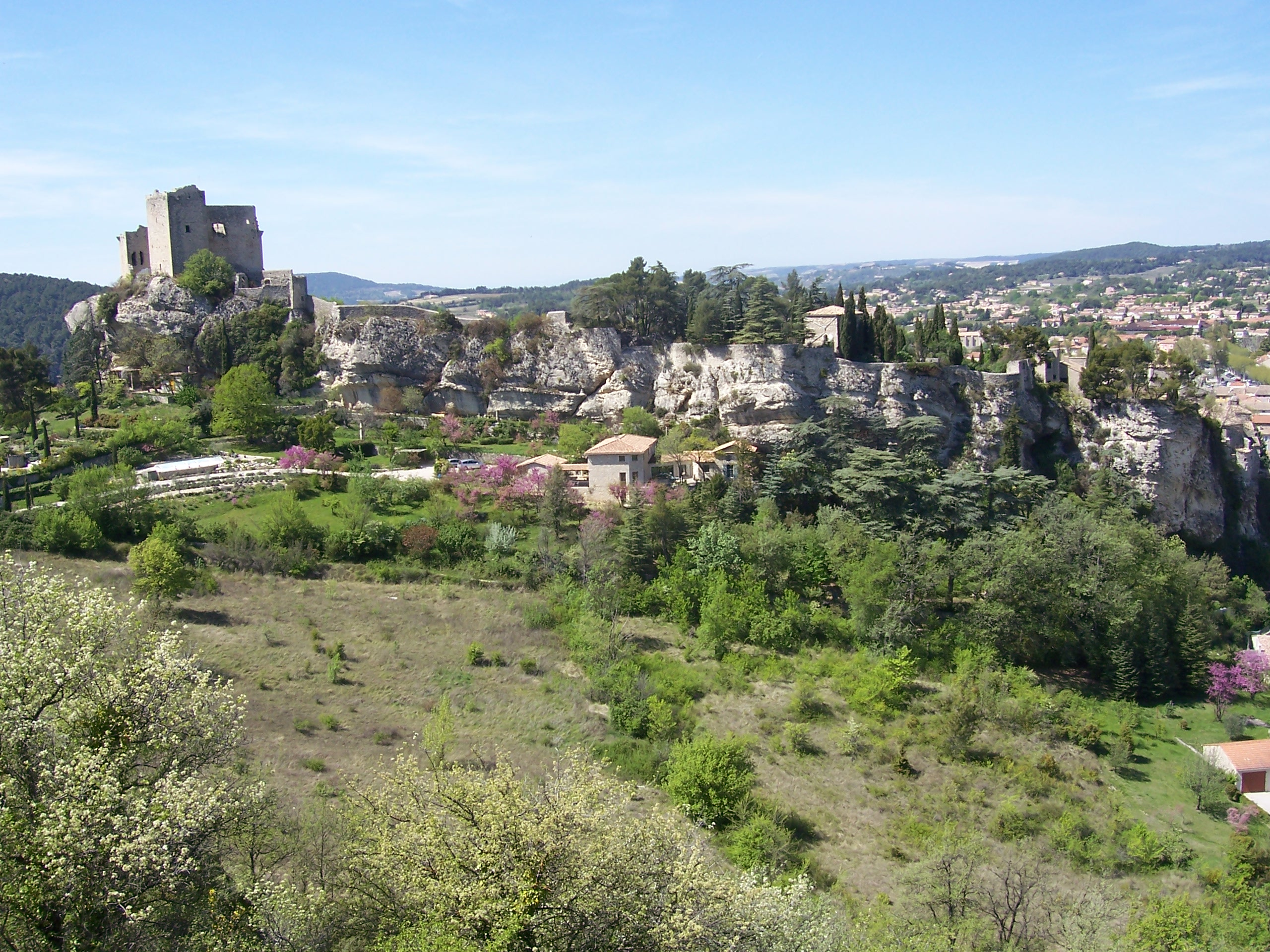 old city of vaison-la-romaine